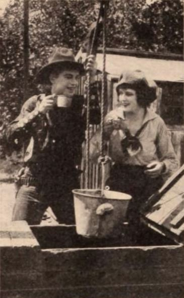 Still from the American western film Fearless Dick (1922) with Dick Hatton (1888 – 1931) and Catherine Craig (the silent film actress with this name), on page 70 of the October 1, 1921 Exhibitors Herald.